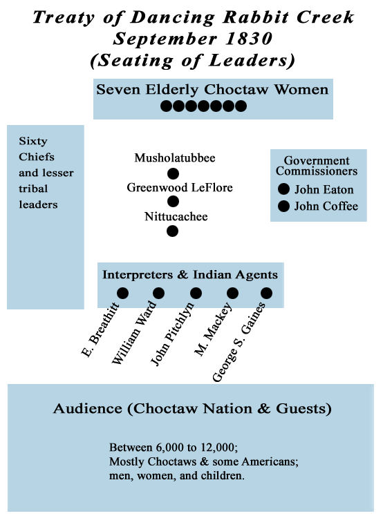 Seating arrangements at the signing of the Treaty of Dancing Rabbit Creek in September 1830 according to Broox Sledge's book called Dancing Rabbit.